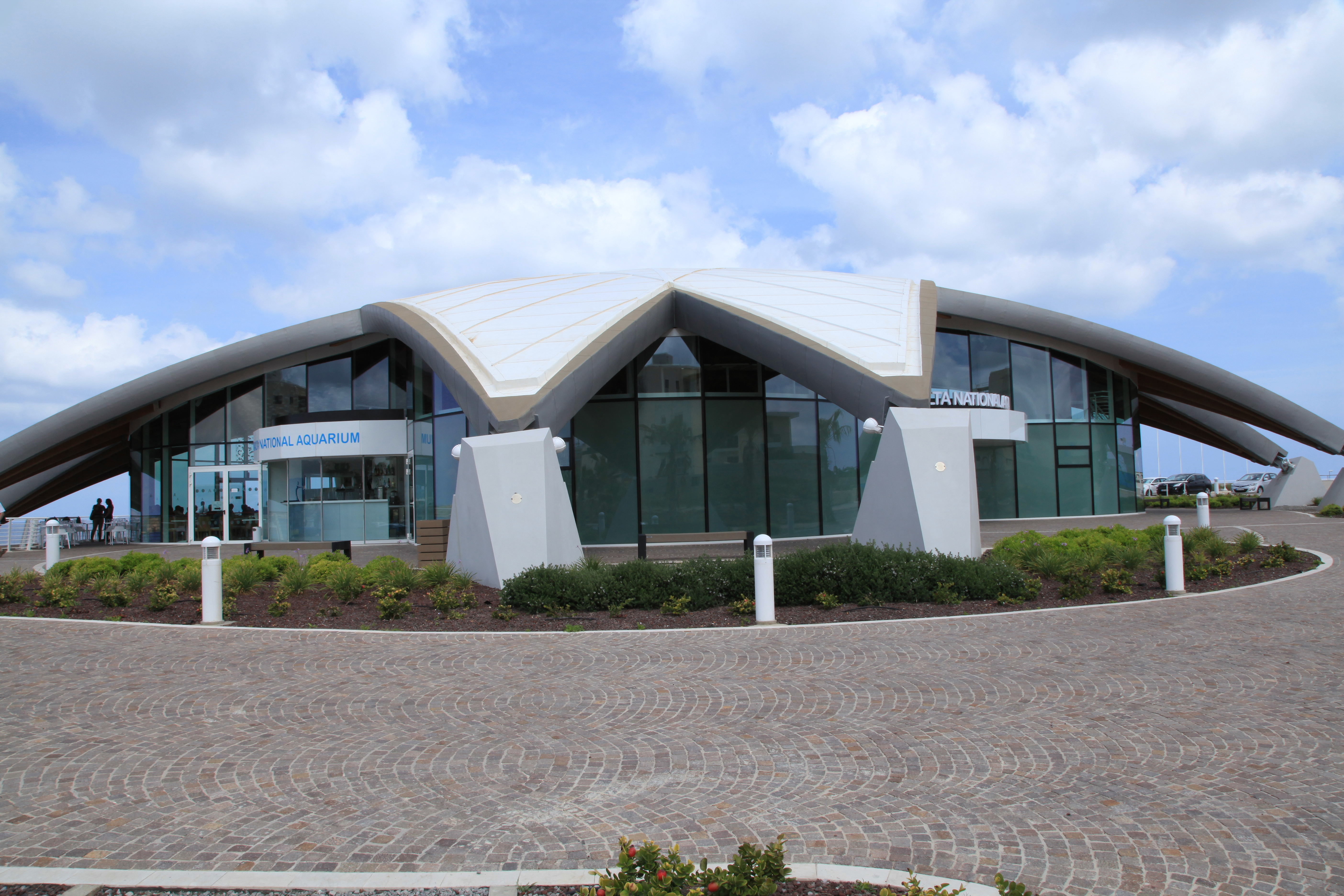 Malta National Aquarium at Triq it-Trunciera in St. Paul's Bay, Malta